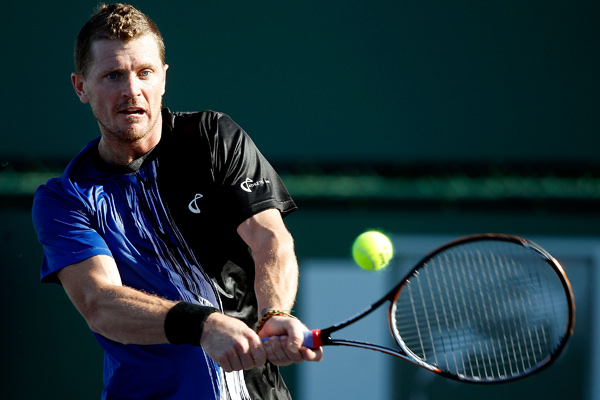 Bogomolov in Indian Wells Qualifying